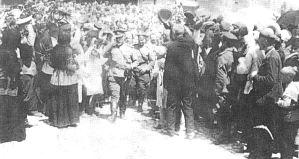 People of the Tsaritsyn (contemp. Volgograd) welcome Denikin after the liberation of the city by ASFR army. July 1919.